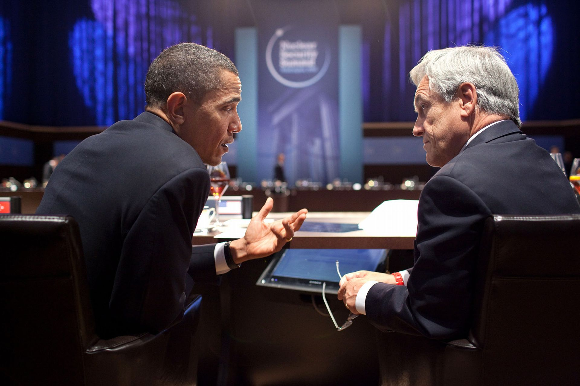 President Barack Obama talks with President Sebastián Piñera.